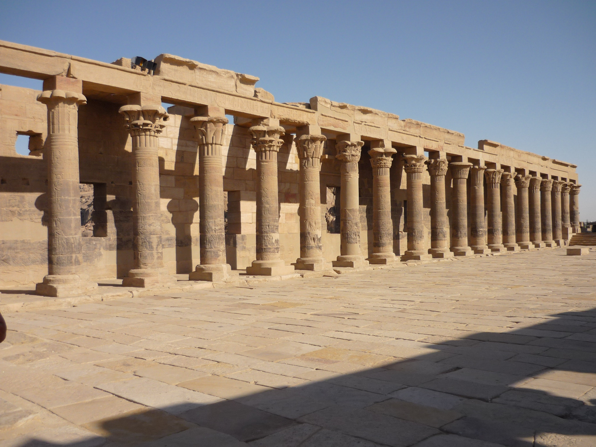 Colonnades of the Isis temple esplanade, Philae Island, Egypt